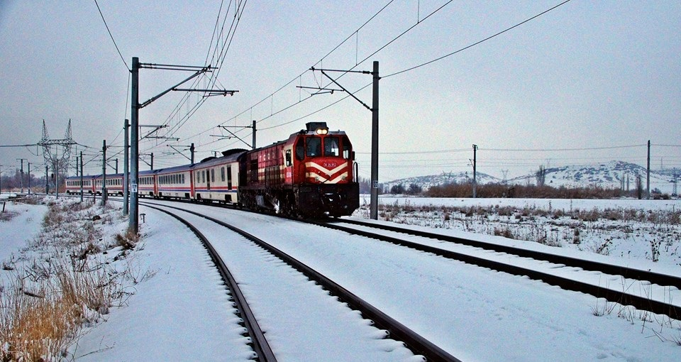 A southbound Pamukkale Express at Alayunt junction.